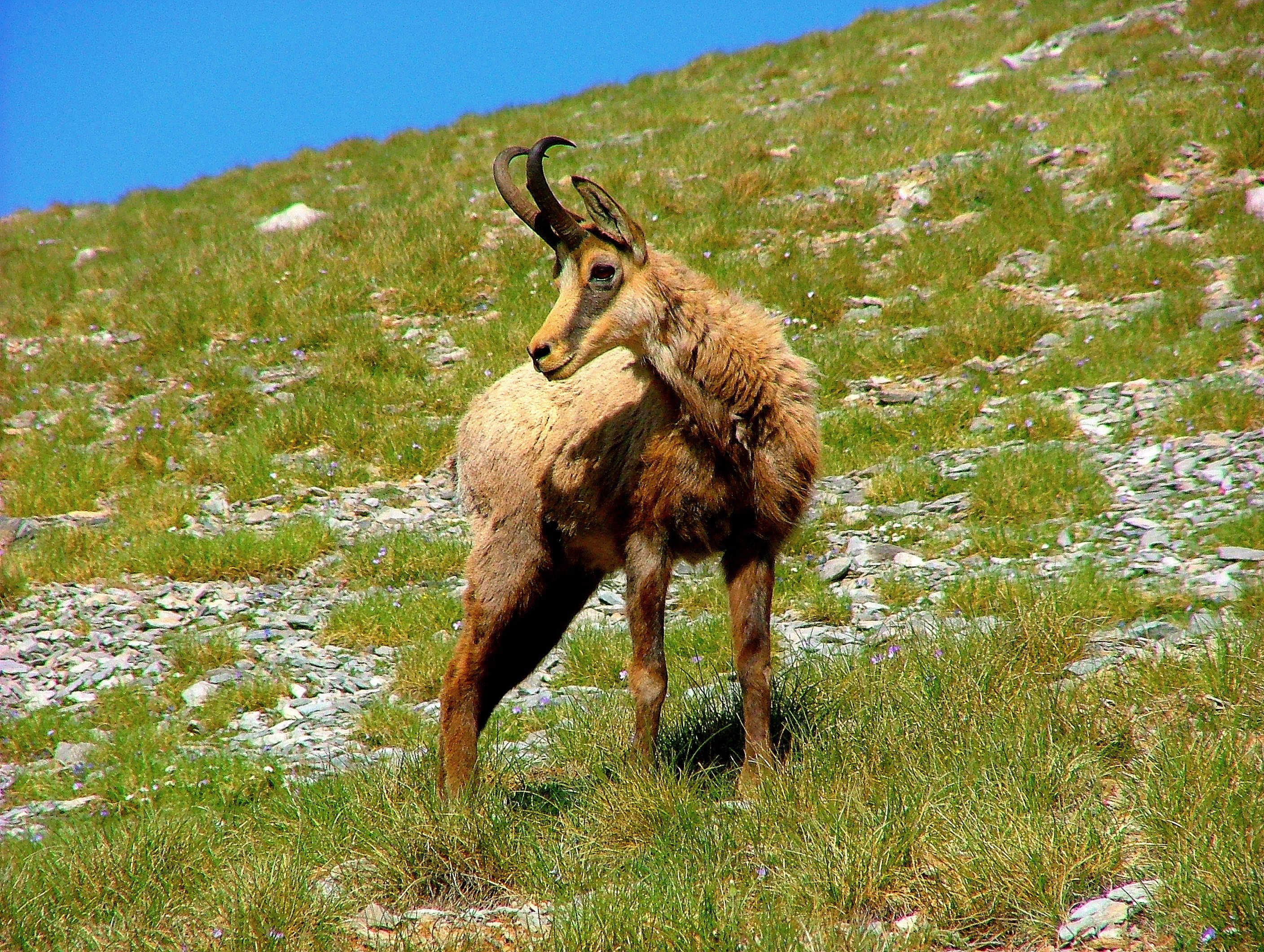 This is a photography of Natura 2000 protected area with ID GR1250001